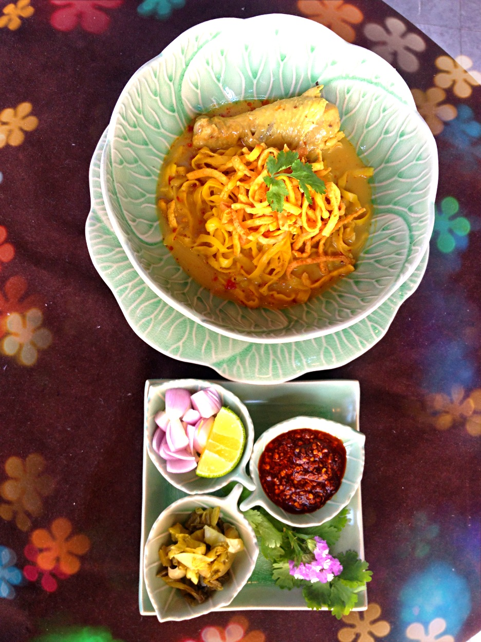 drumstick khao soy from Chanchao Khaosoy in Chiang Mai